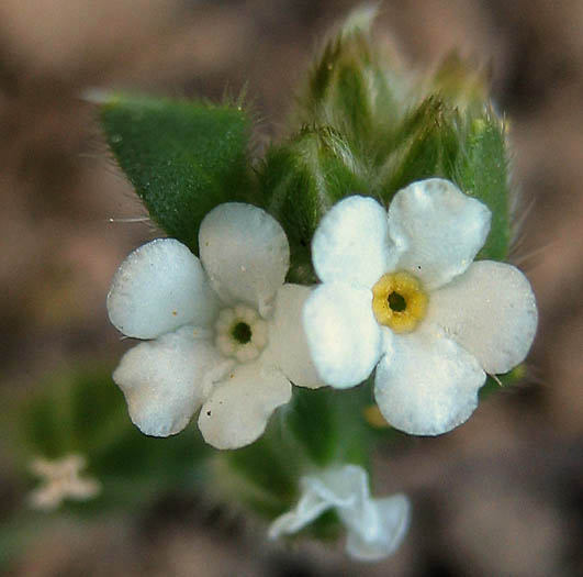 Plagiobothrys canescens on Deerleg Trail, Malibu Creek State Park, Santa Monica Mountains National Recreation Area, California, USA. NPS photo, no copyright.